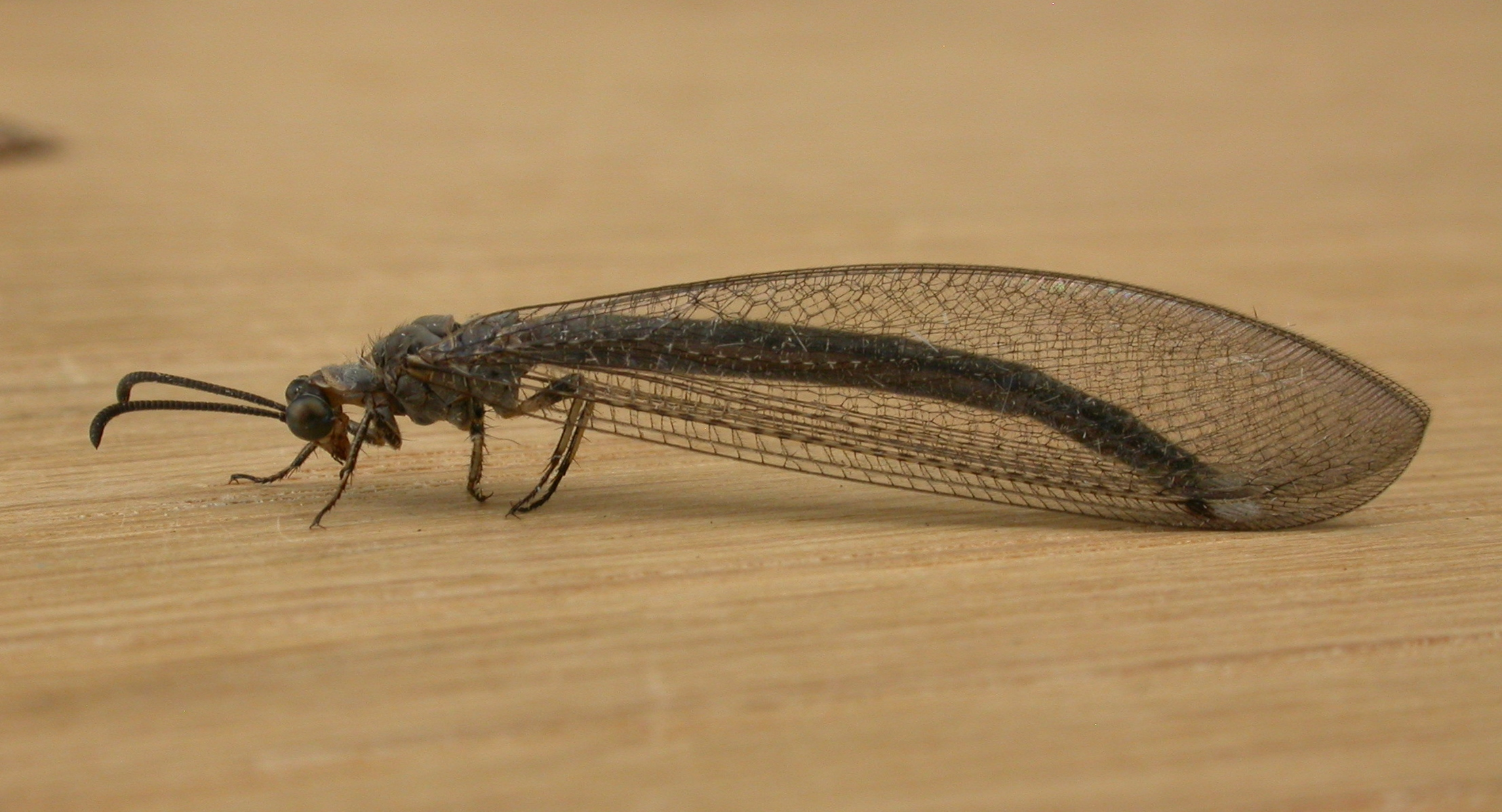 Myrmeleon acer (Walker), to MV light, Aranda, ACT, 21/22 January 2009